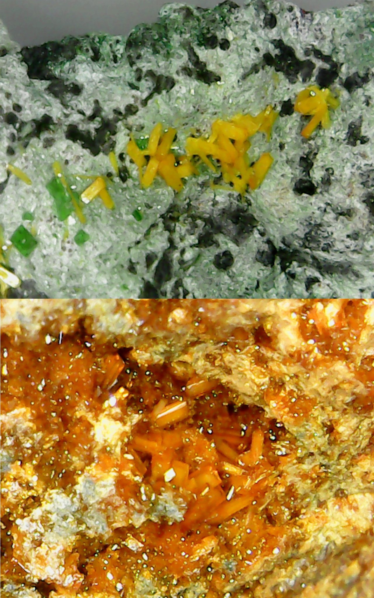 Different colours of kasolite depending on the locality; top: Musonoi, bottom: Shinkolowbe (both mines in Katanga, DRC) (crystal size ca. 0.5 mm)